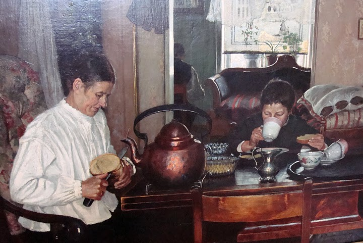 Painting Frokost (Breakfast) from 1882 by norwegian painter Gustav Wentzel, 1859-1927. Owned by National Gallery, Oslo.